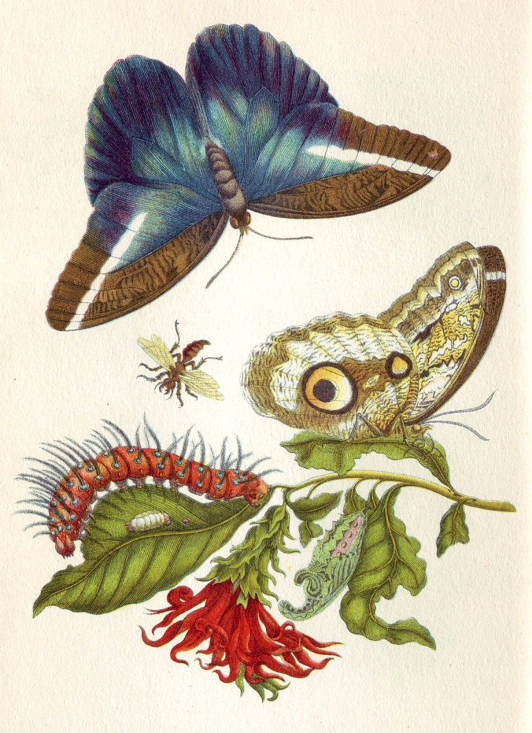 Metamorphosis insectorum Surinamensium